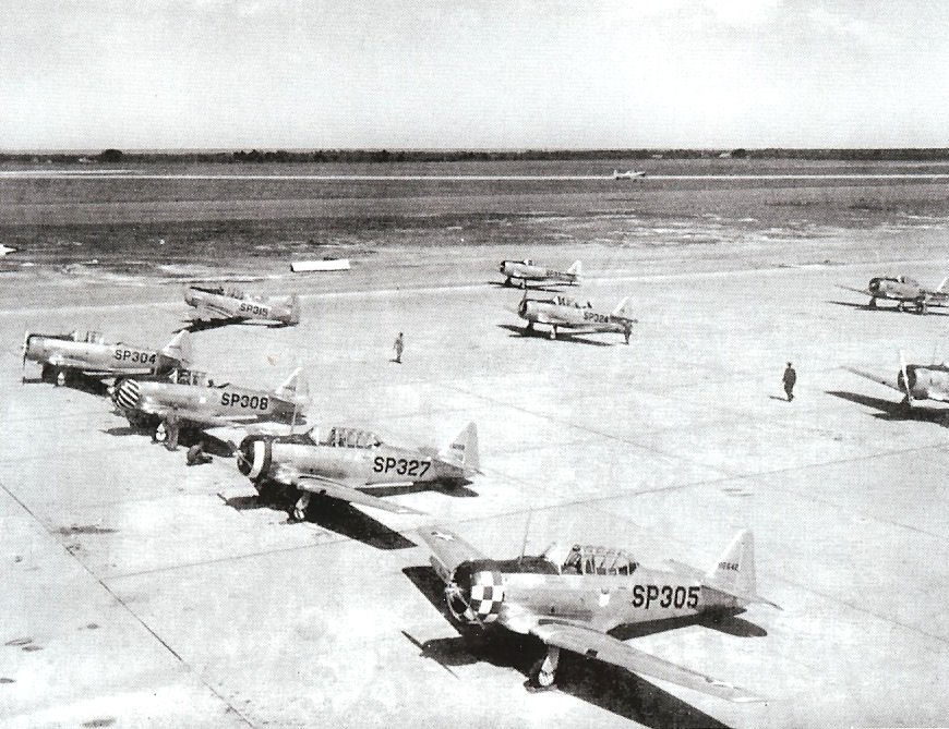 North American AT-6 Texan advanced single engine trainers at Spence Army Airfield, Georgia, about 1943